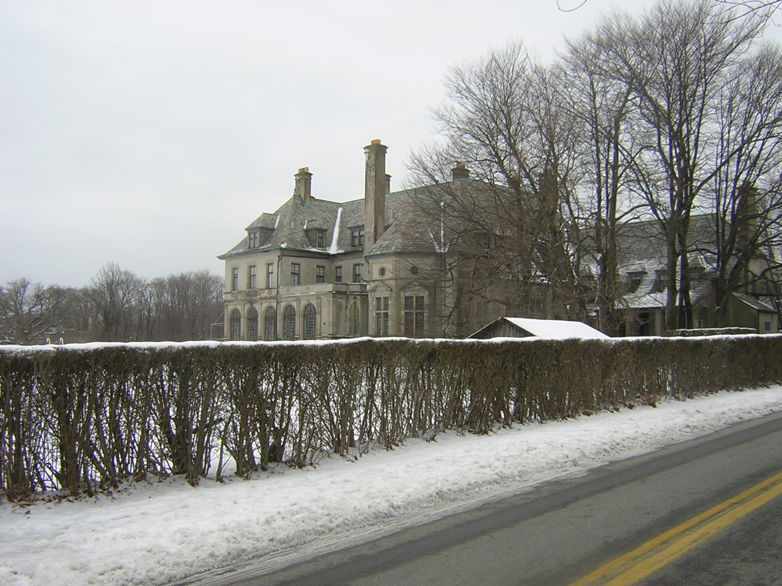 Seaview Terrace (Carey mansion) — in Newport, Rhode Island. Part of Salve Regina University, c. 1975 to 2009.